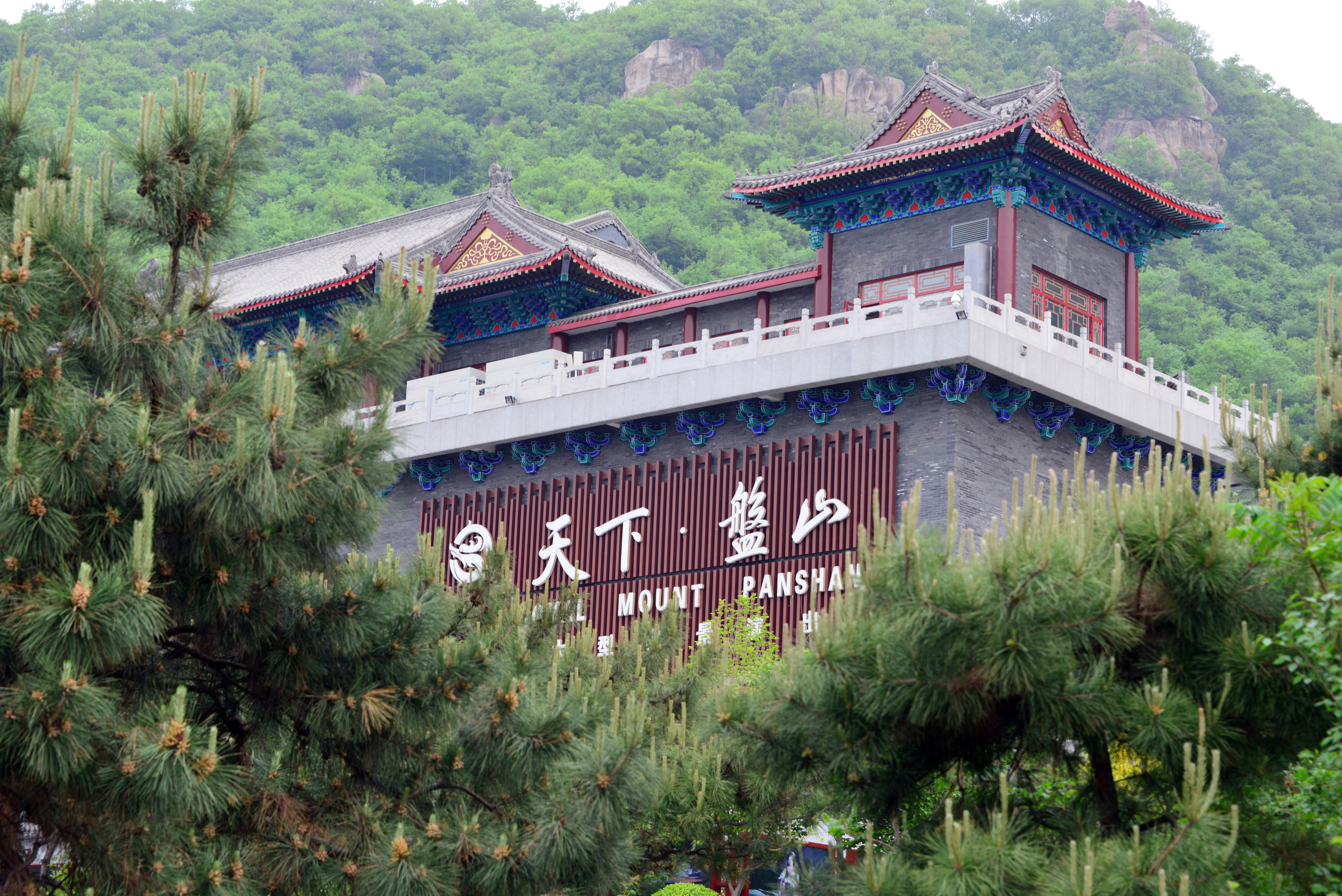 Panshan resort in Ji Xian, Tianjin, China.